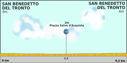 Tirreno Adreatico 2012 stage 7